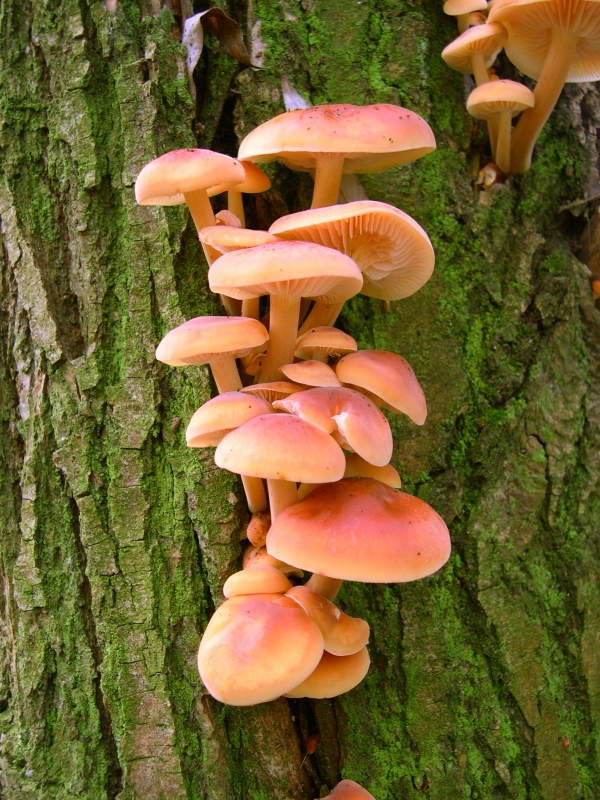 Found in Italy